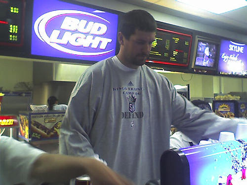 Brad Miller, then with the Sacramento Kings, serving beverages to fans.